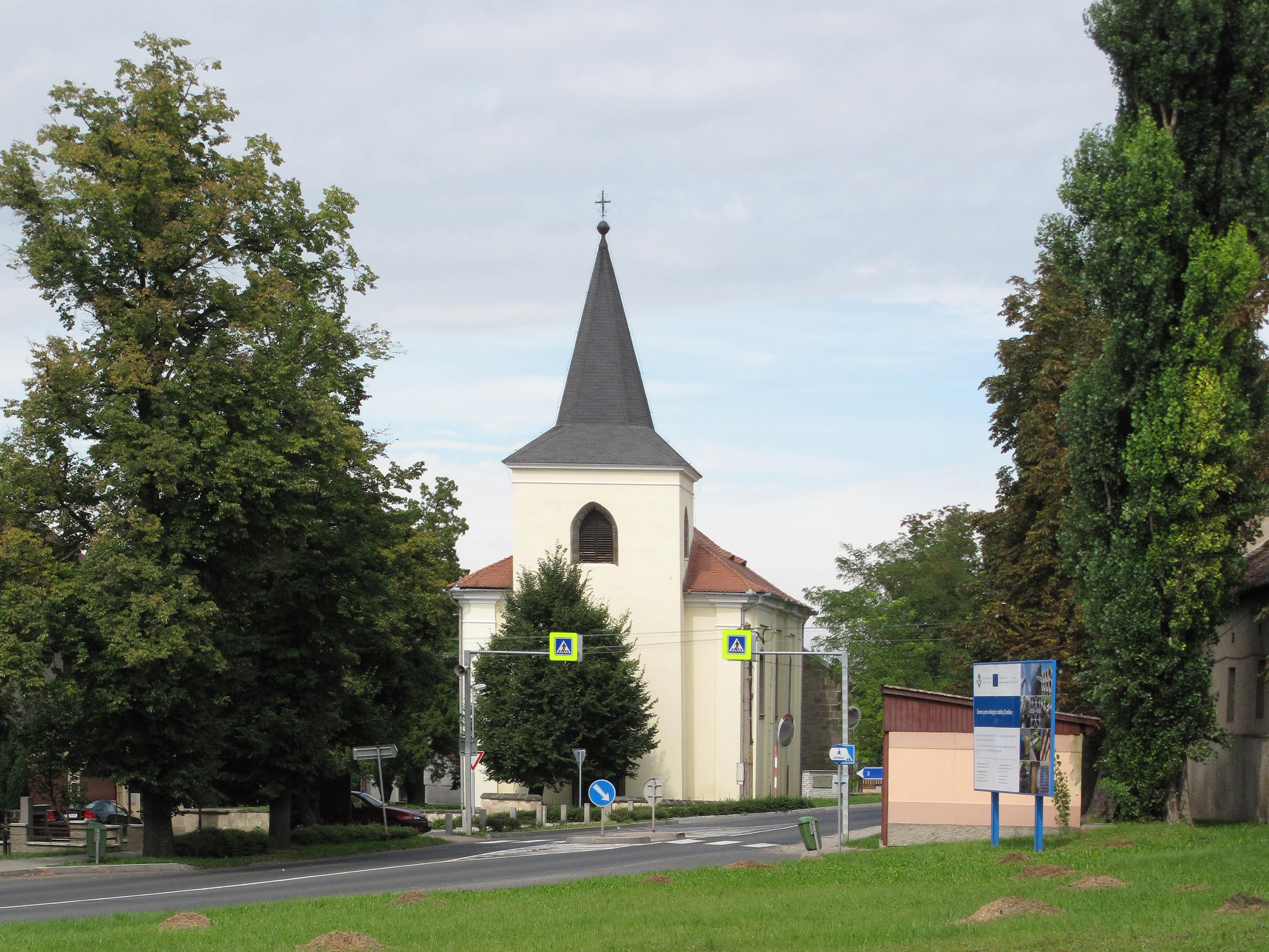 View on the Church of the Assumption in Chotěšov village, Litoměřice District, Czech Republic.